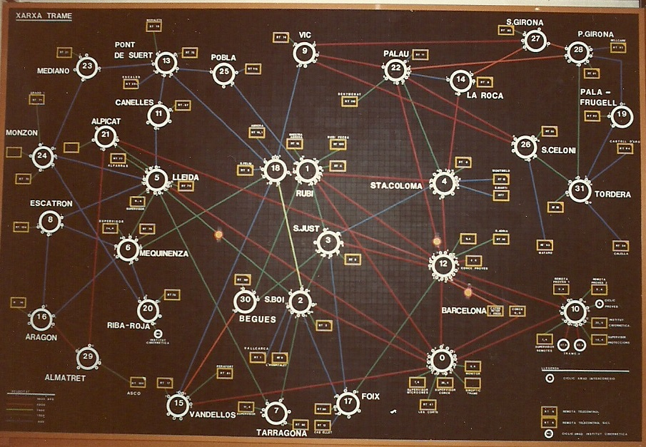 Image of the sinoptic display of the TRAME packet switching network